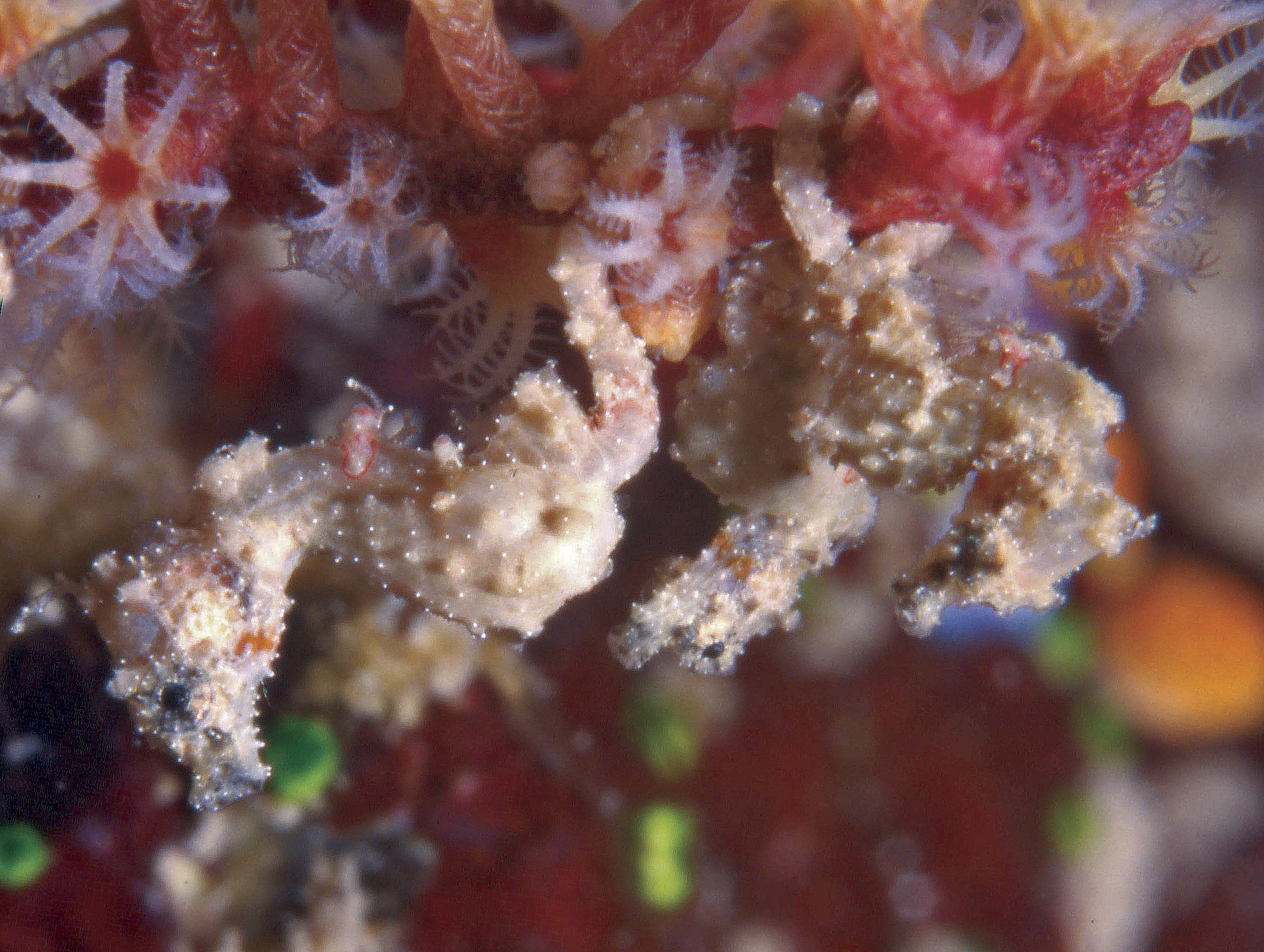 A photograph of Hippocampus satomiae on some coral